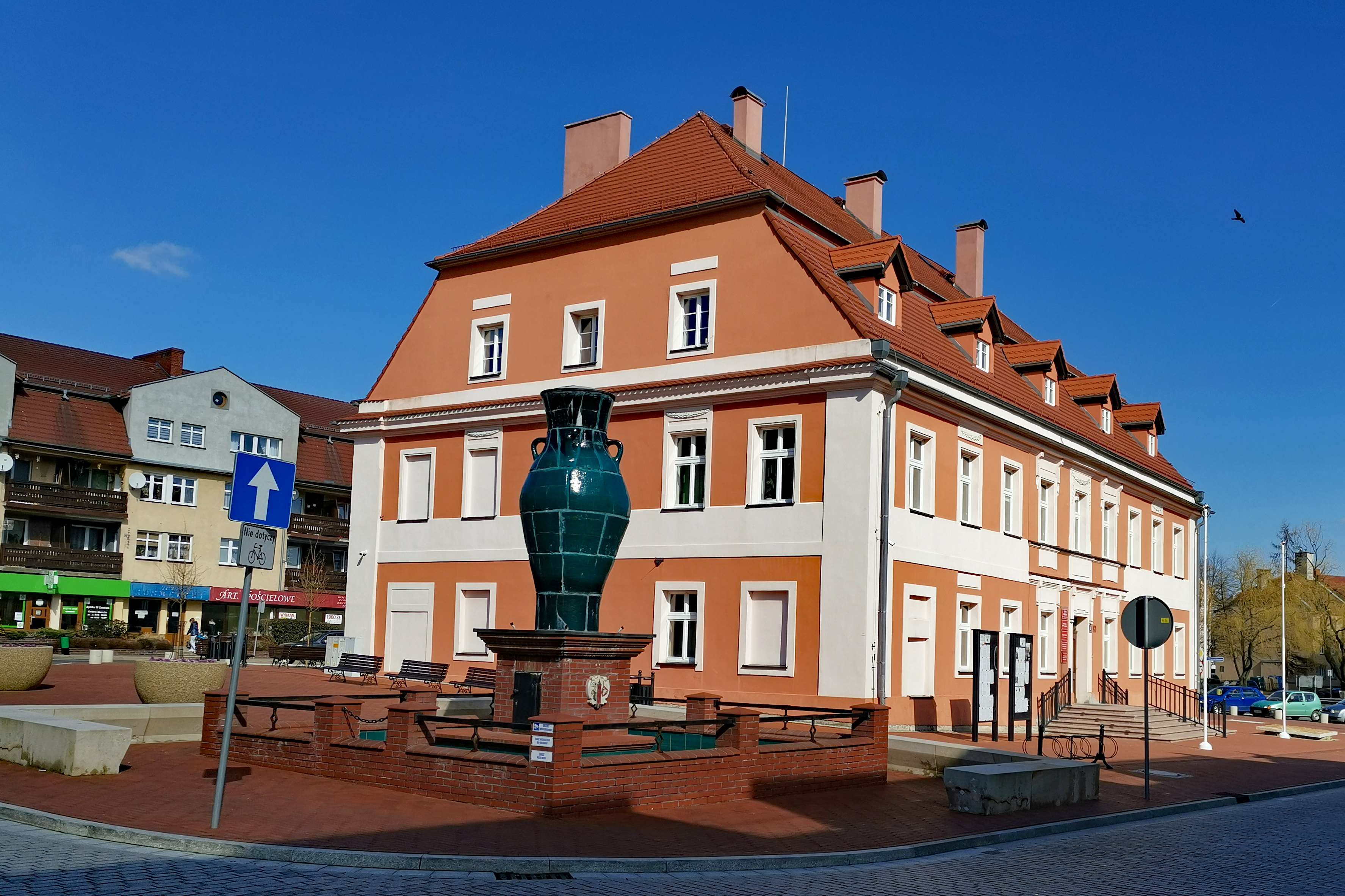 Nowogrodziec (Lower Silesian Voivodeship, Poland)